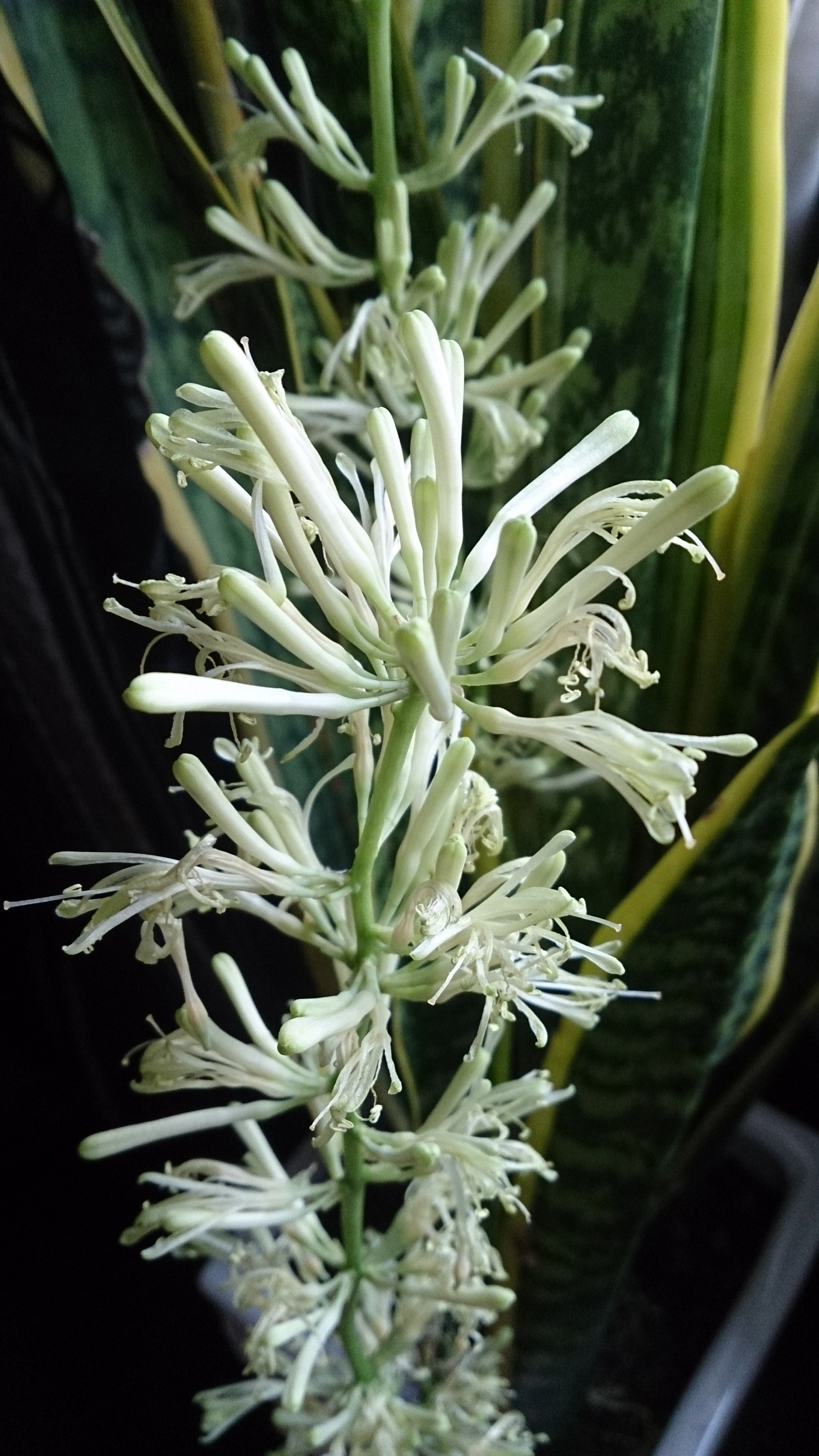 Sansevieria trifasciata